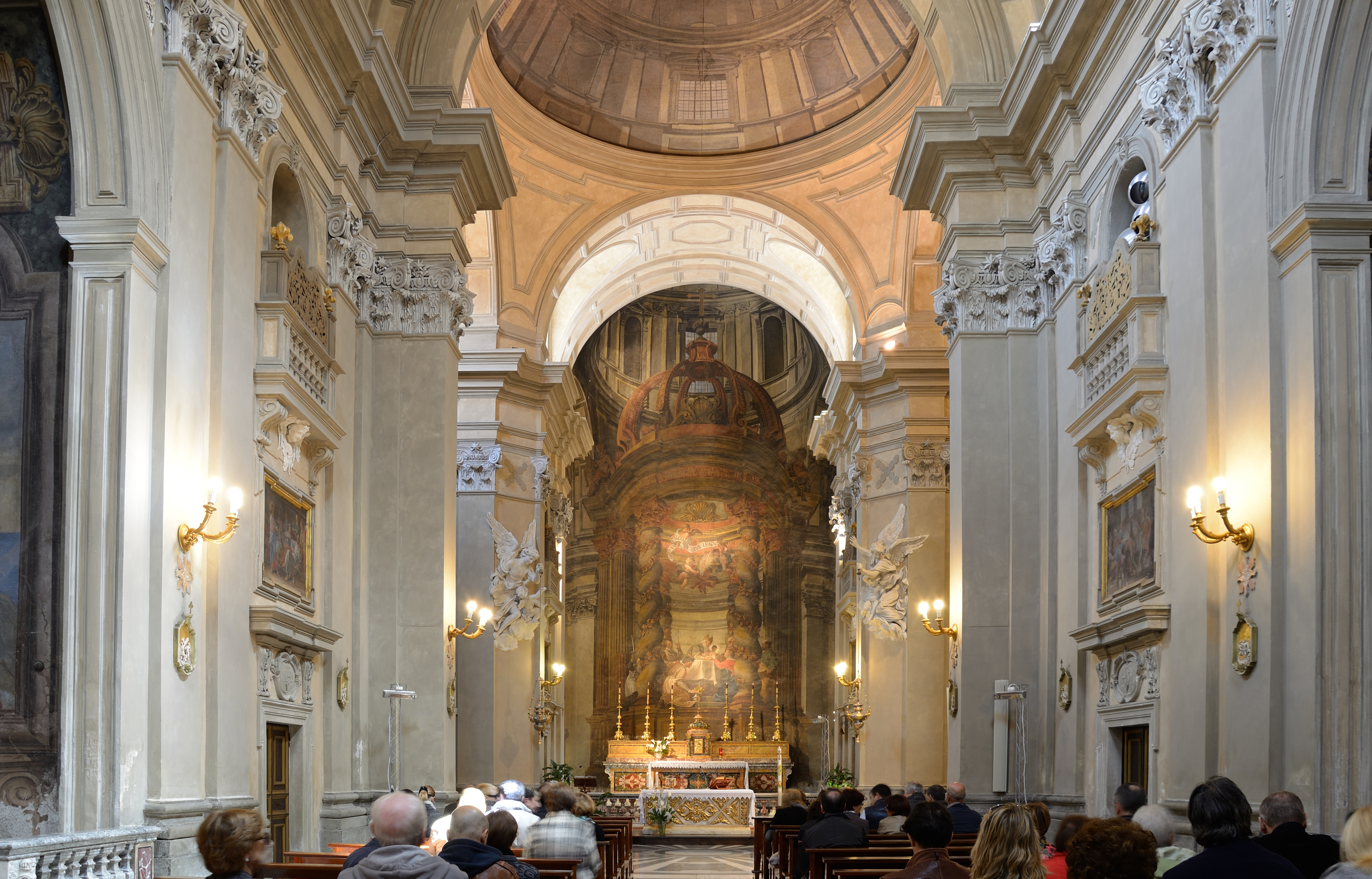 Church of Jesus in Frascati - intern